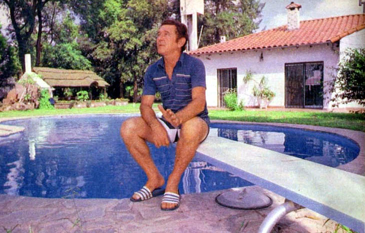 Cap in his house in Don Torcuato, BA